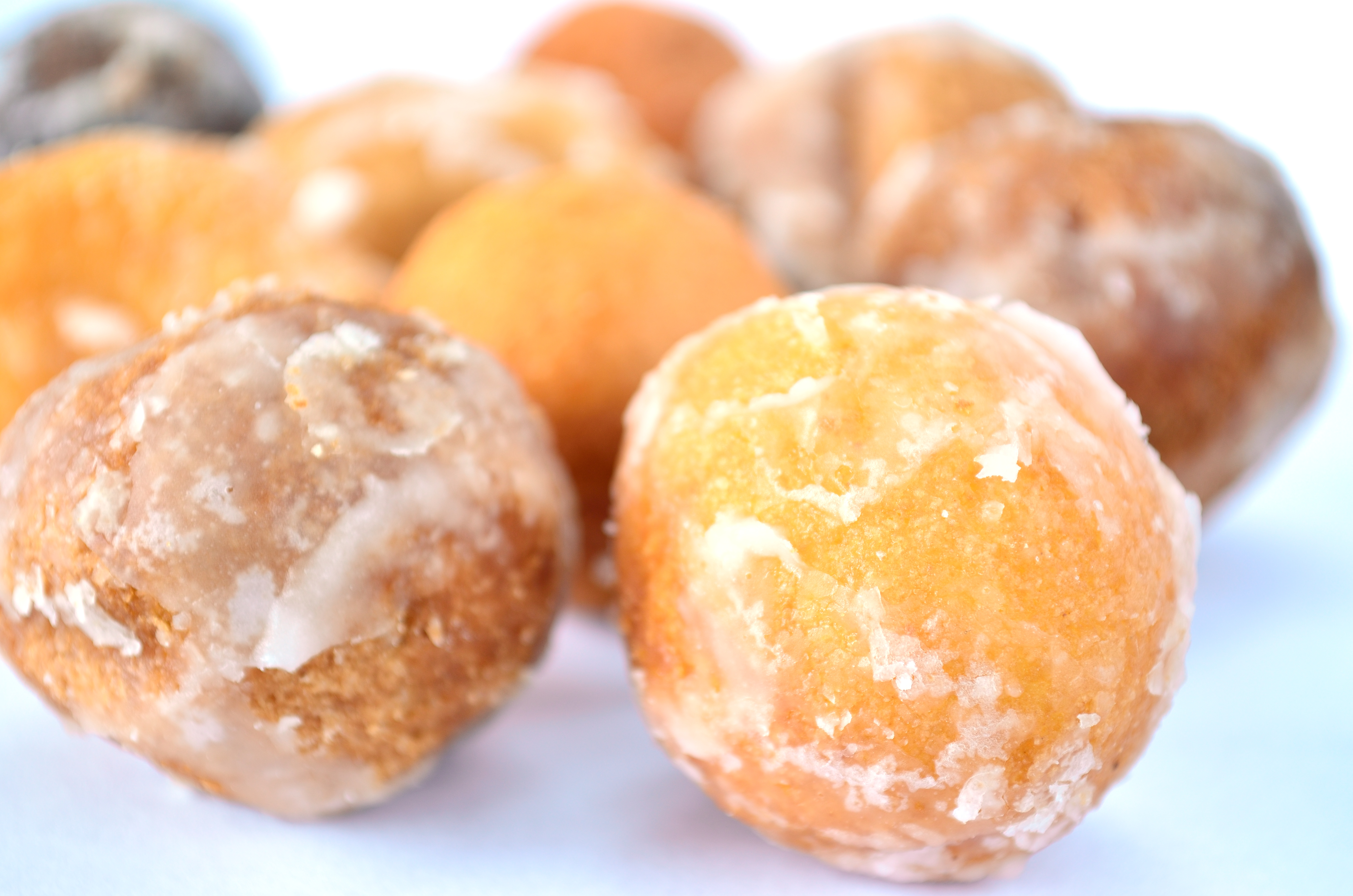 Timbits